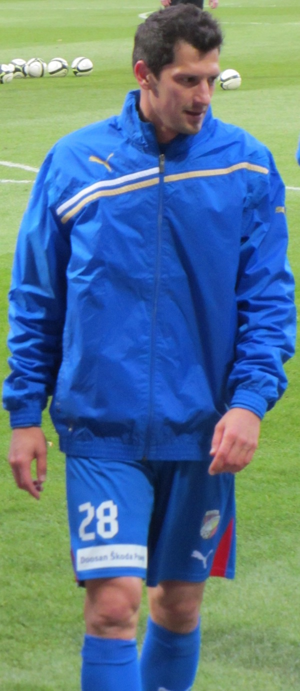 Marián Čišovský of FC Viktoria Plzeň warming up before the match against FK Dukla Praha